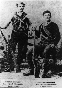 Portrait of greek revolutionaries Georgios Skalidis, died in 1906, and Evangelos_Nikoloudis